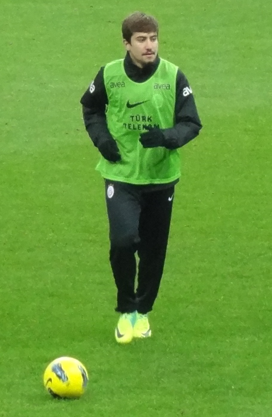 aydın yılmaz against sivasspor